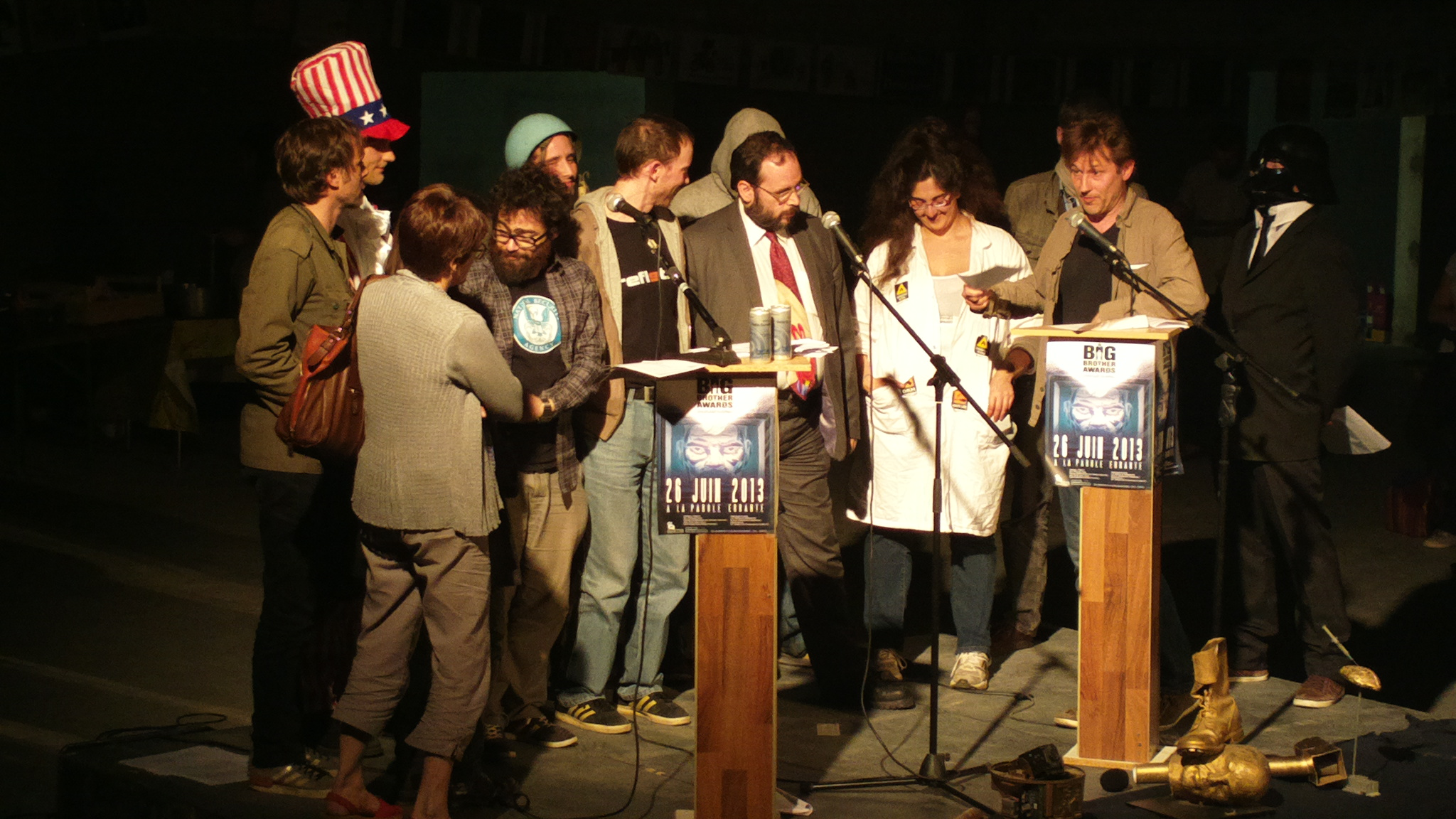 Big Brother Awards France 2013. The Big Brother Awards recognize "the government and private sector organizations ... which have done the most to threaten personal privacy". They are named after the George Orwell character Big Brother from the novel Nineteen Eighty-Four. They are awarded yearly to authorities, companies, organisations, and persons that have been acting particularly and consistently to threaten or violate people's privacy, or disclosed people's personal data to third parties.